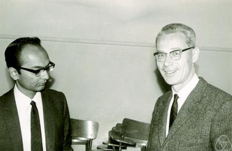 Beno Eckmann (right) with Raghavan Narasimhan